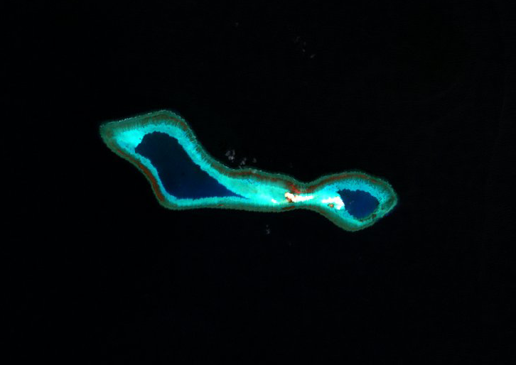 Commodore Reef is an atoll of Spratly Islands.